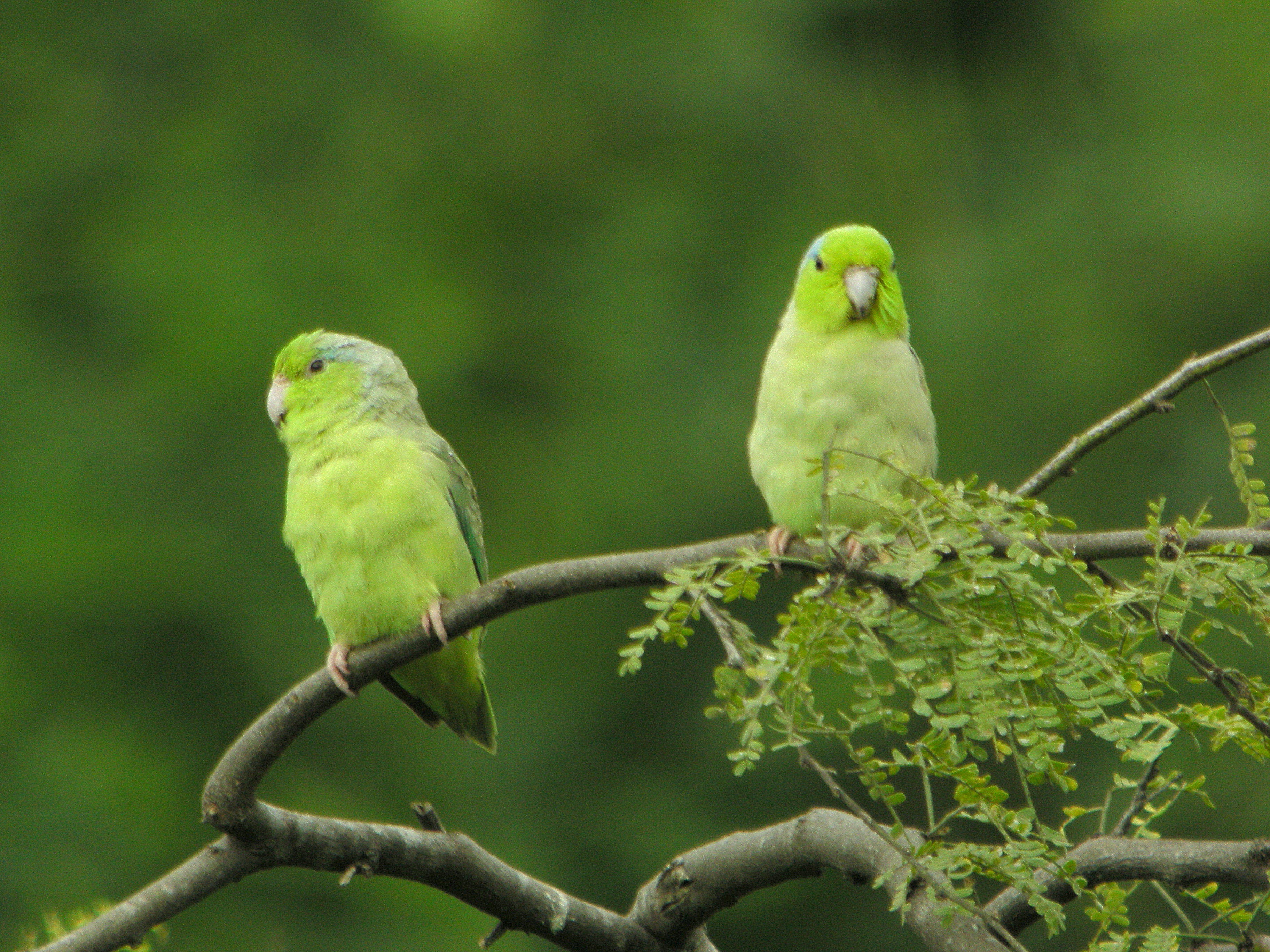 Pacific Parrotlet (also known as Lesson's Parrotlet and Celestial Parrotlet) in El Empalme, El Oro Province, coastal SW Ecuador.